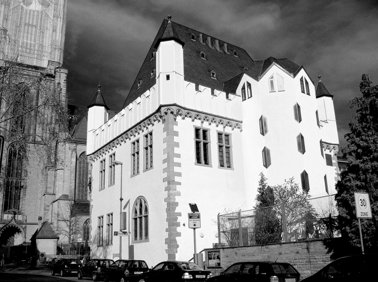 Frankfurt on the Main: Leinwandhaus (Linen House) as seen from the southwest